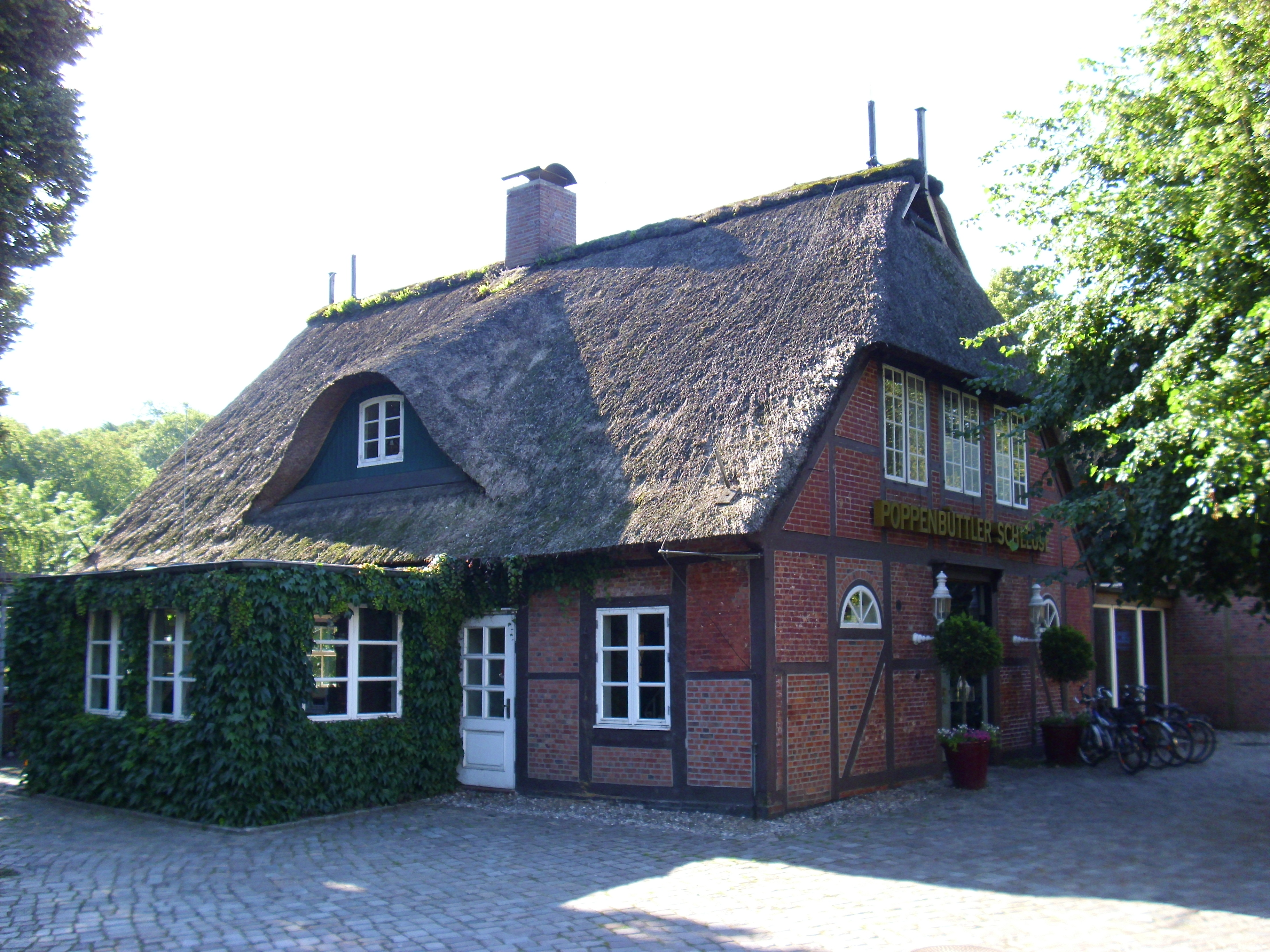 Cultural monument No. 1063 in Hamburg, Germany